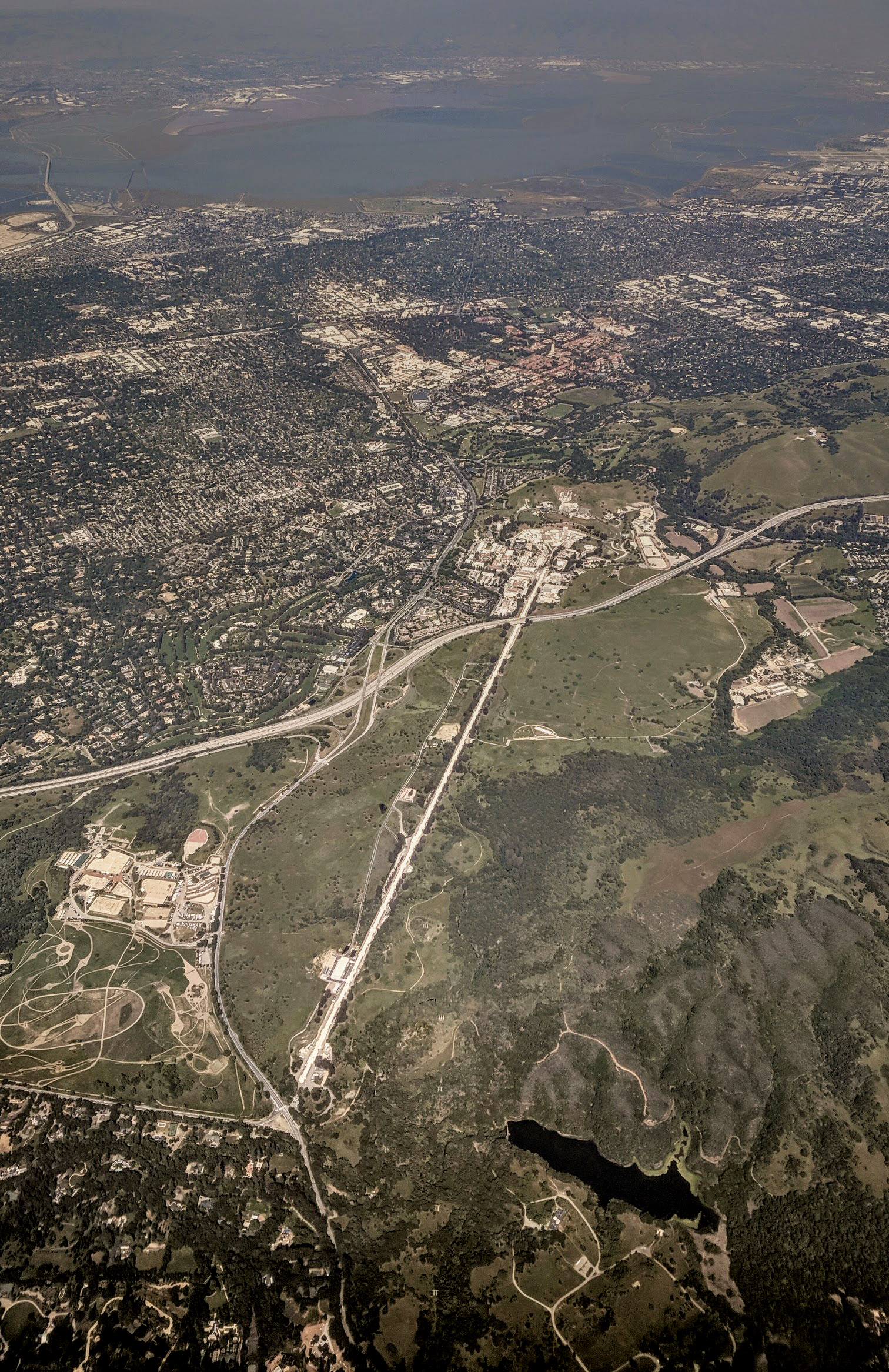 Searsville Lake with the Stanford Linear Accelerator Center and I-280, with San Francisco Bay in the distance